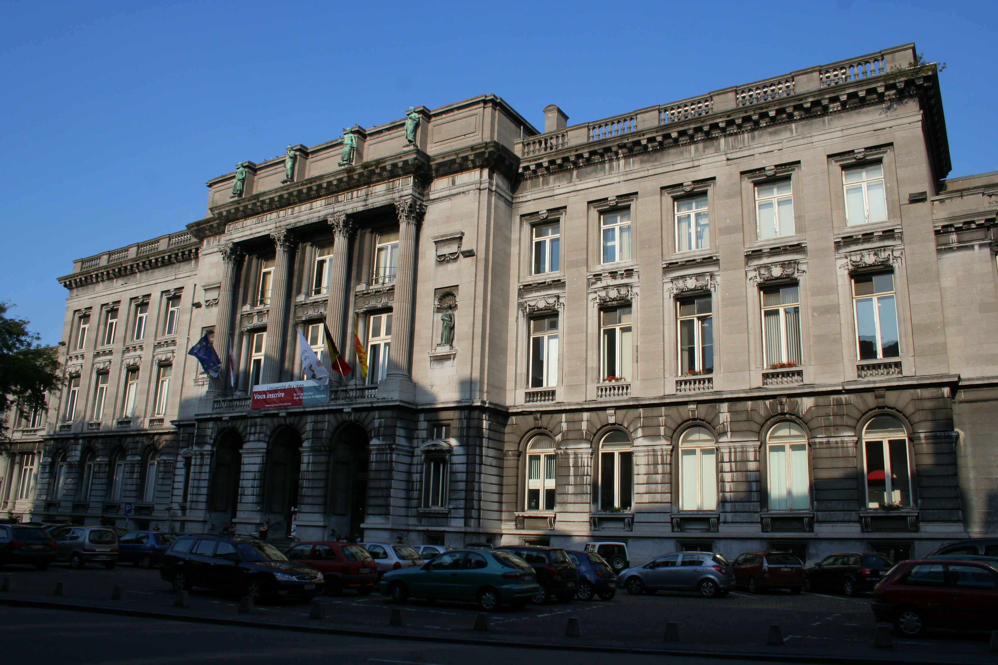 Main building of the University of Liège, Belgium.